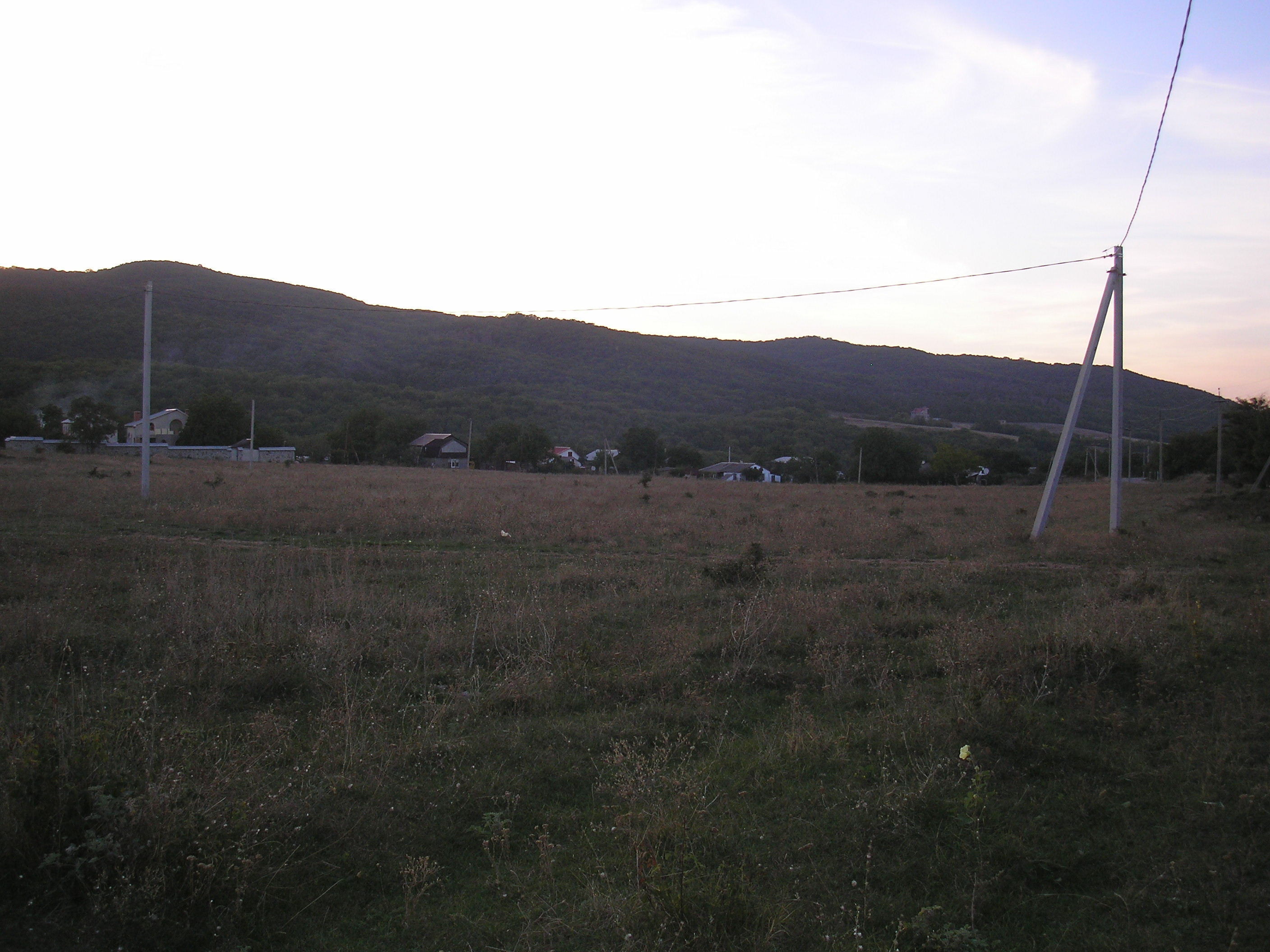 Village Krasnolesye, Simferopol district, Crimea